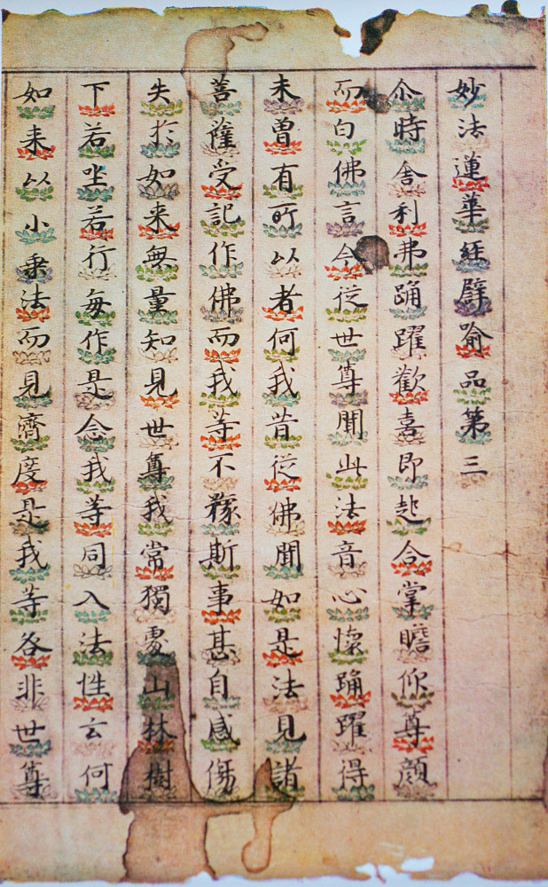 A Part of Lotus pedestal character Lotus Sutra, ink on ornamented paper, 29cm height, Heian period, Nine handscrolls. Fukushima Aizumisato Ryukoji, Aizumisato, Fukushima, Japan